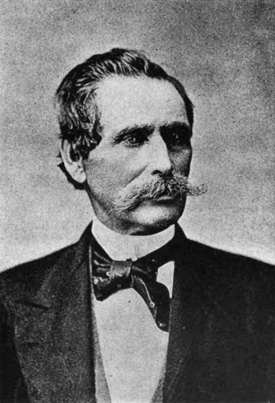 Captain Absalom L. Anderson, commander of the Hudson River steamboat Mary Powell for many years, and prior to that, of the Hudson River steamers Thomas Powell and Highlander.